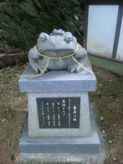 Sanfuku kaeru statue at Otokoyama Hachiman Shrine in Himeji, Hyogo, Japan